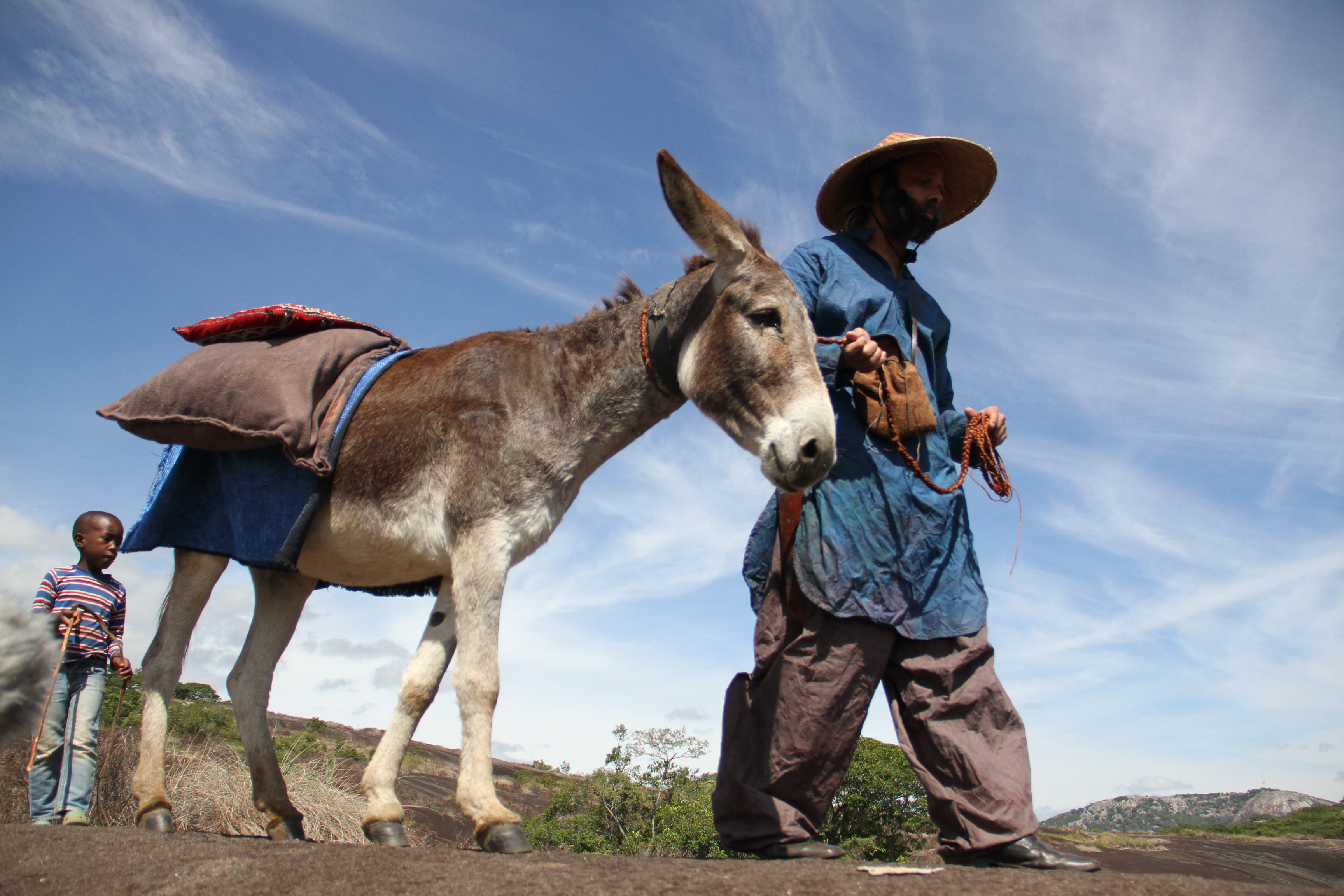 This is an image with the theme "Africa on the Move or Transport" from: Zimbabwe